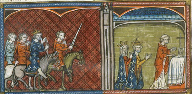 Philip II August riding to St Denis (left), and Philip and Isabelle at Mass (right). (British Library, Royal 16 G VI f. 332v)